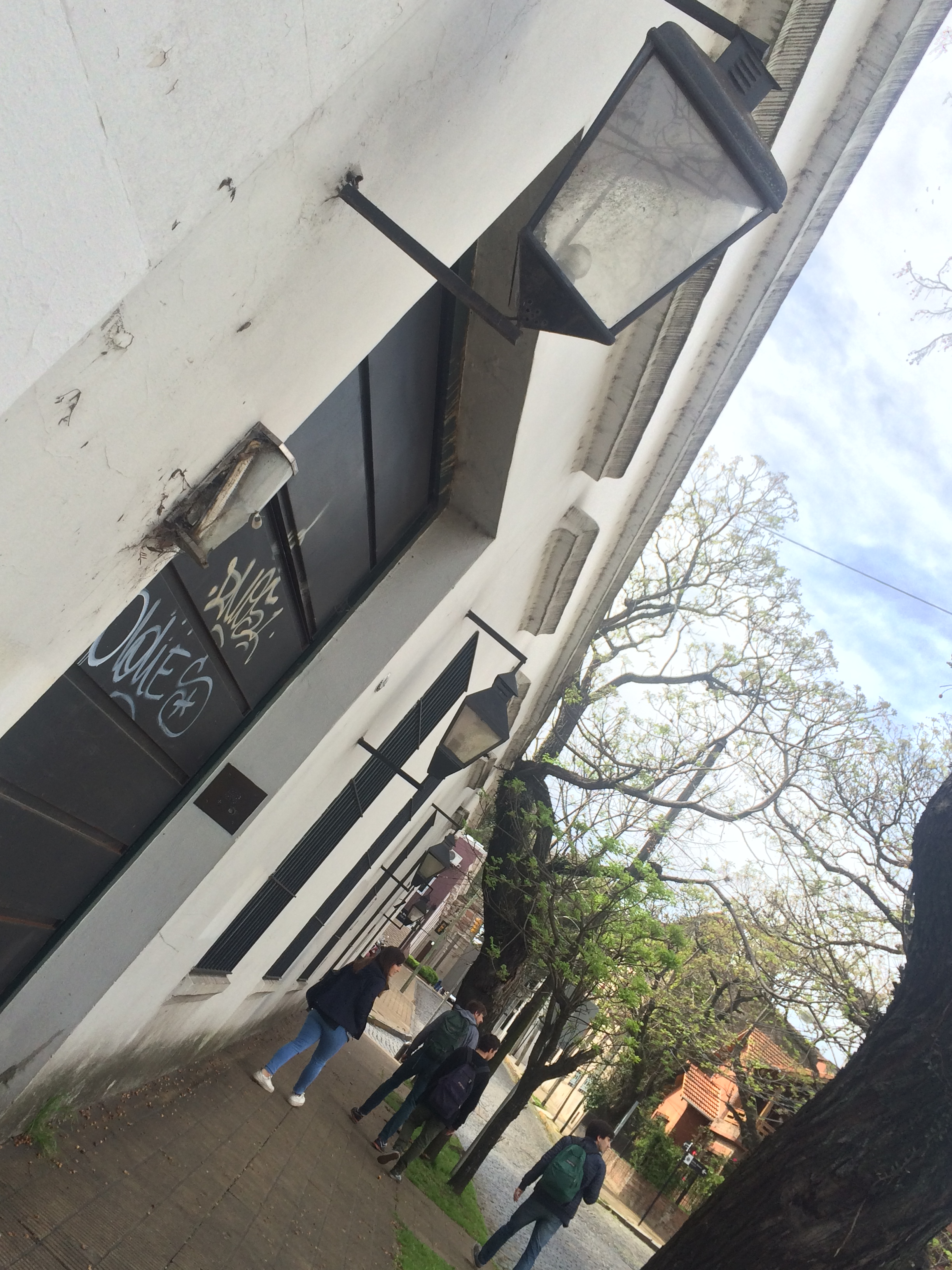 Streets in the Old Town